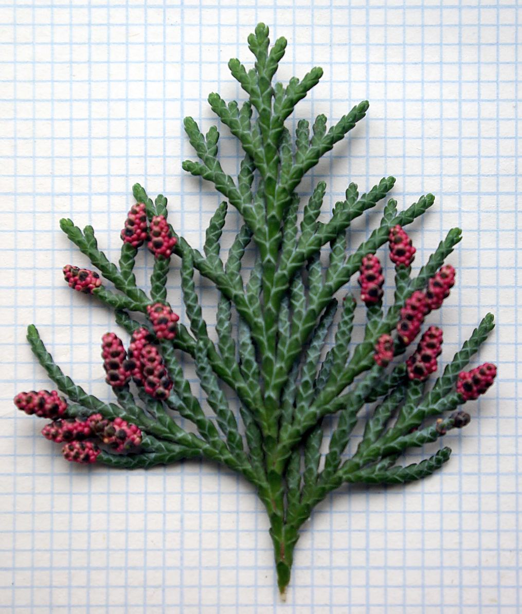 Male cones of Lawson cypress showing diagnostic red colour